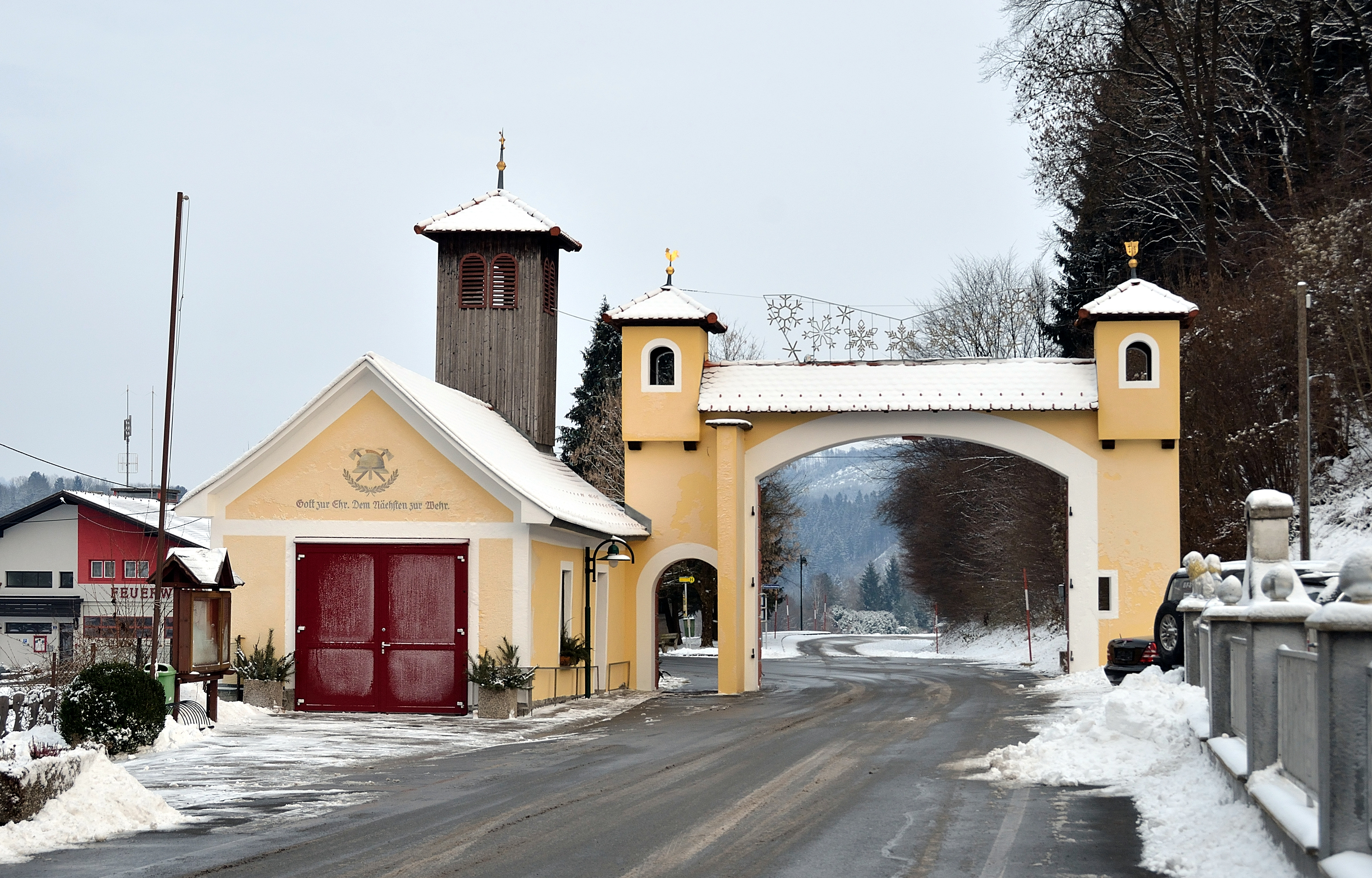 Old fire station at Töplitsch, municipality of Weißenstein, Carinthia.